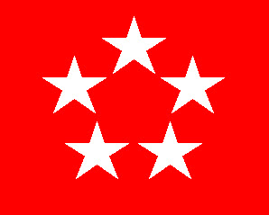 Standard of a General of the Army (United States)